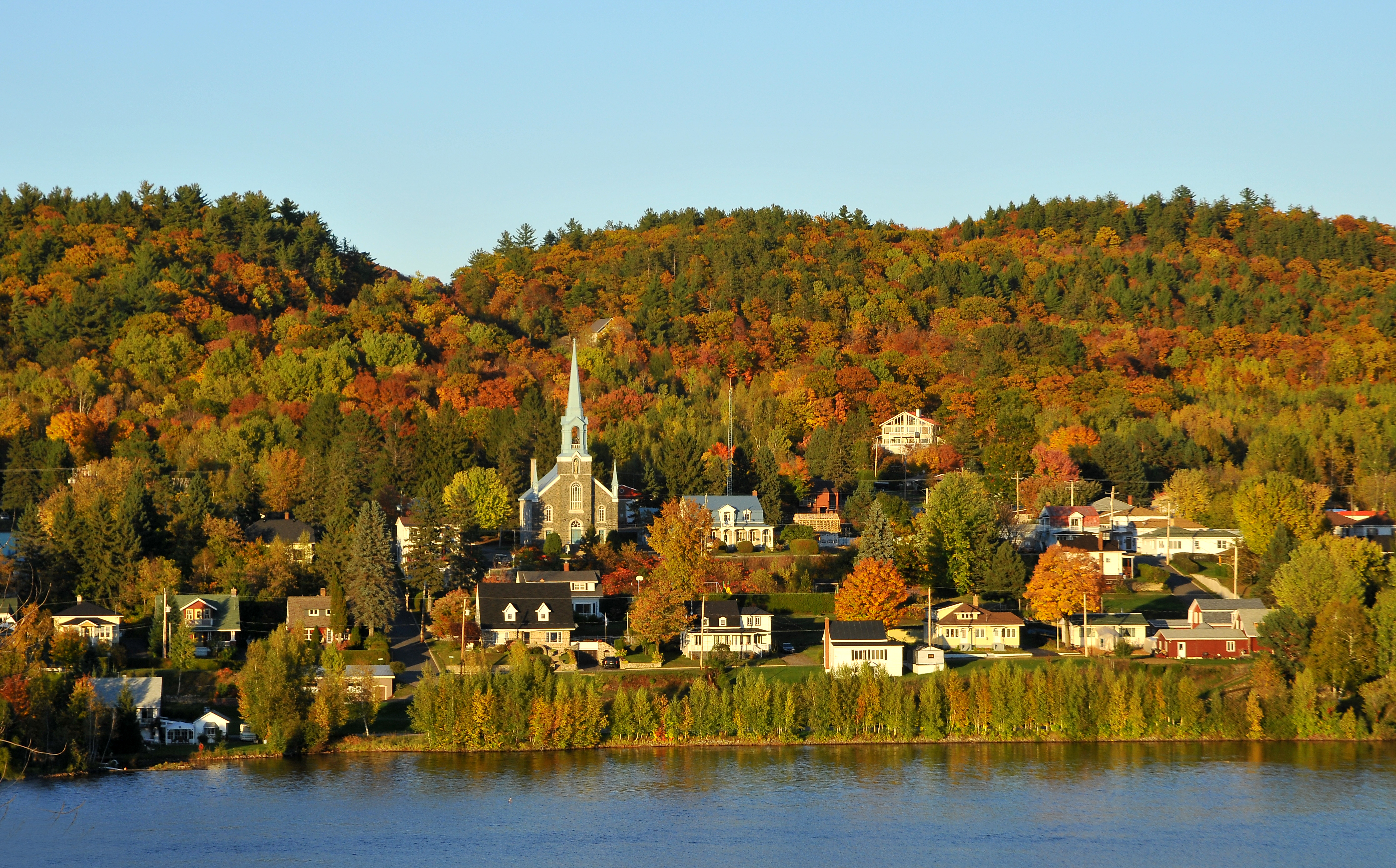 Saint-Maurice river and Saint-Jean-des-Piles village . Mauricie, Quebec, Canada